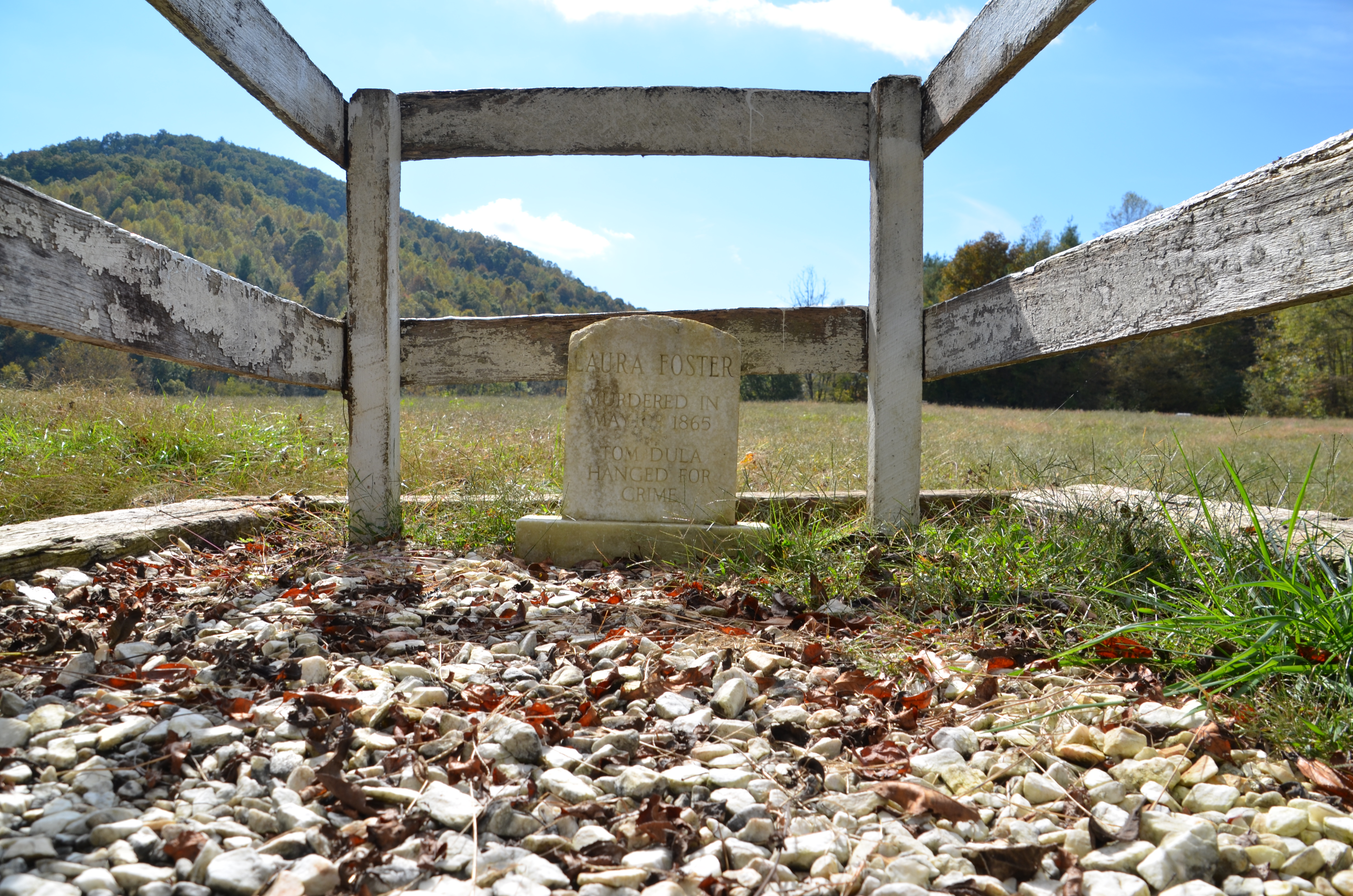 Grave of Laura Foster, murderen in 1866, probably by Tom Dooley. Grave is close to NC 268 in Caldwell county, North Carolina.